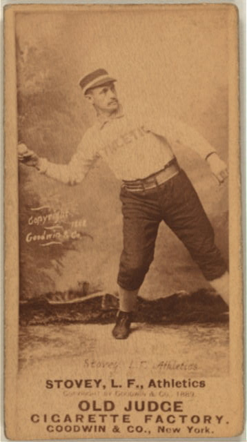 Harry Stovey on a 1887-1890 Goodwin & Company baseball card (Old Judge (N172)).